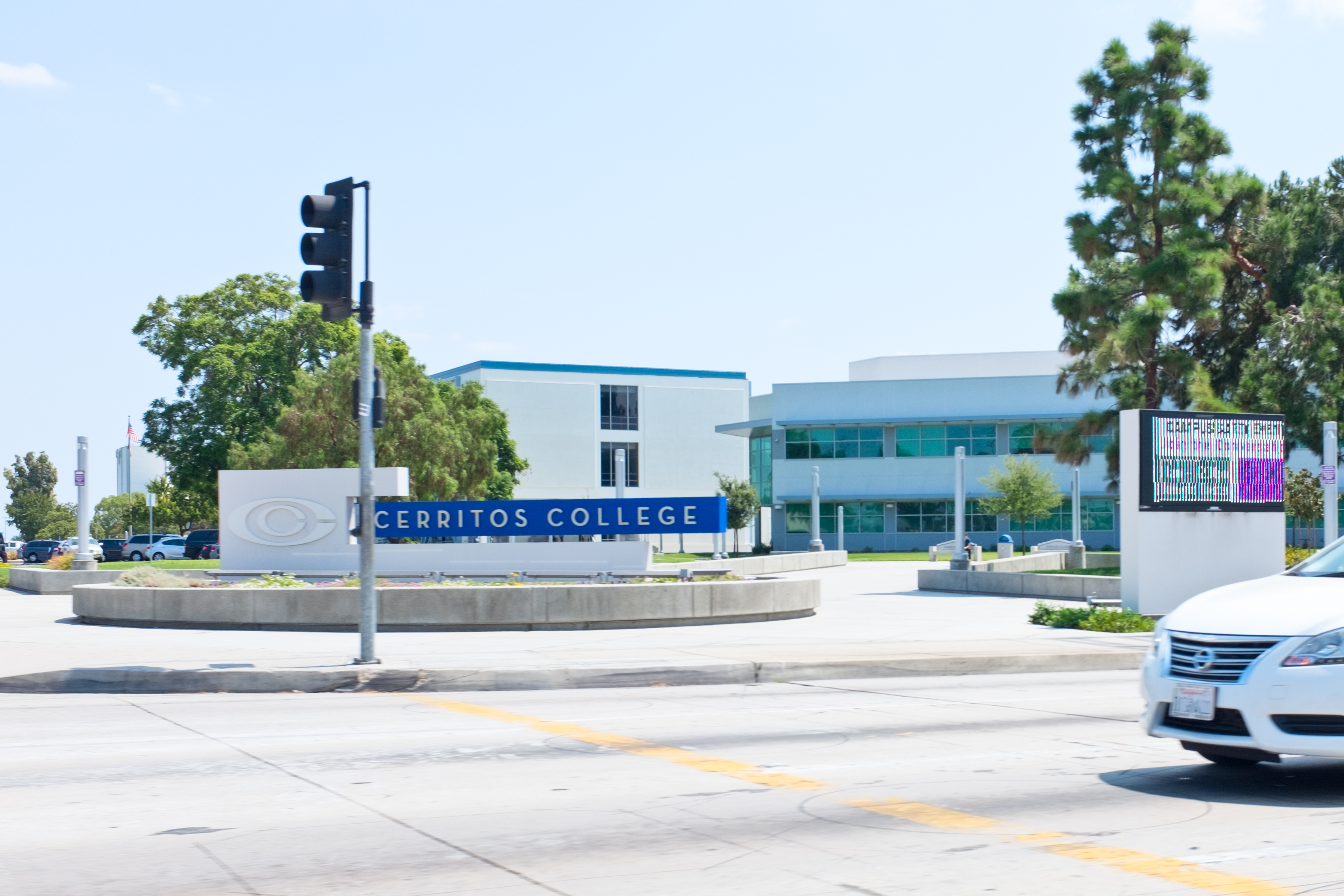 View of the entrance to Cerritos College from the corner of Studebaker Road and Alondra.